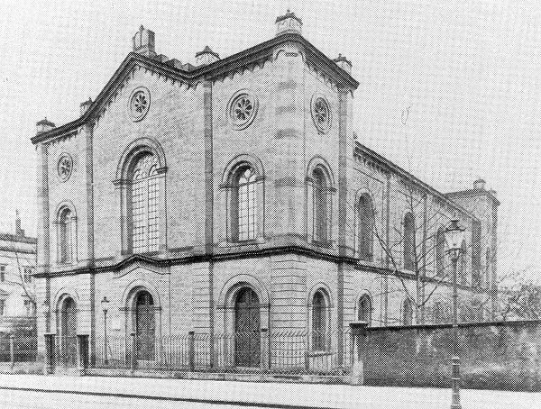 Photo of the synagogue of Kassel, built in 1839 and destroyed by the nazis in 1938